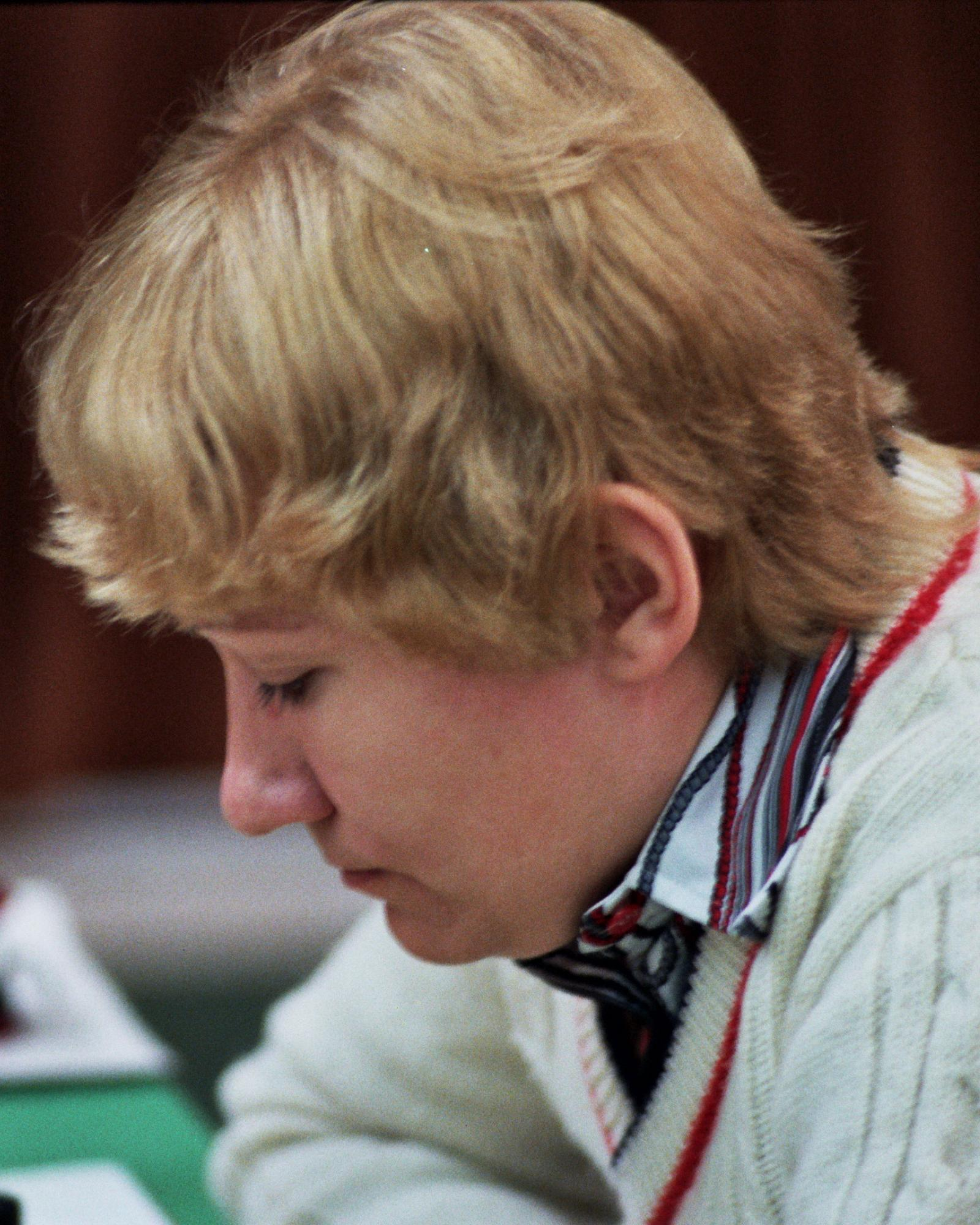 Zsuzsa Veröci, Dortmunder Schachtage 1982, tournament for women, Photographer Gerhard Hund.